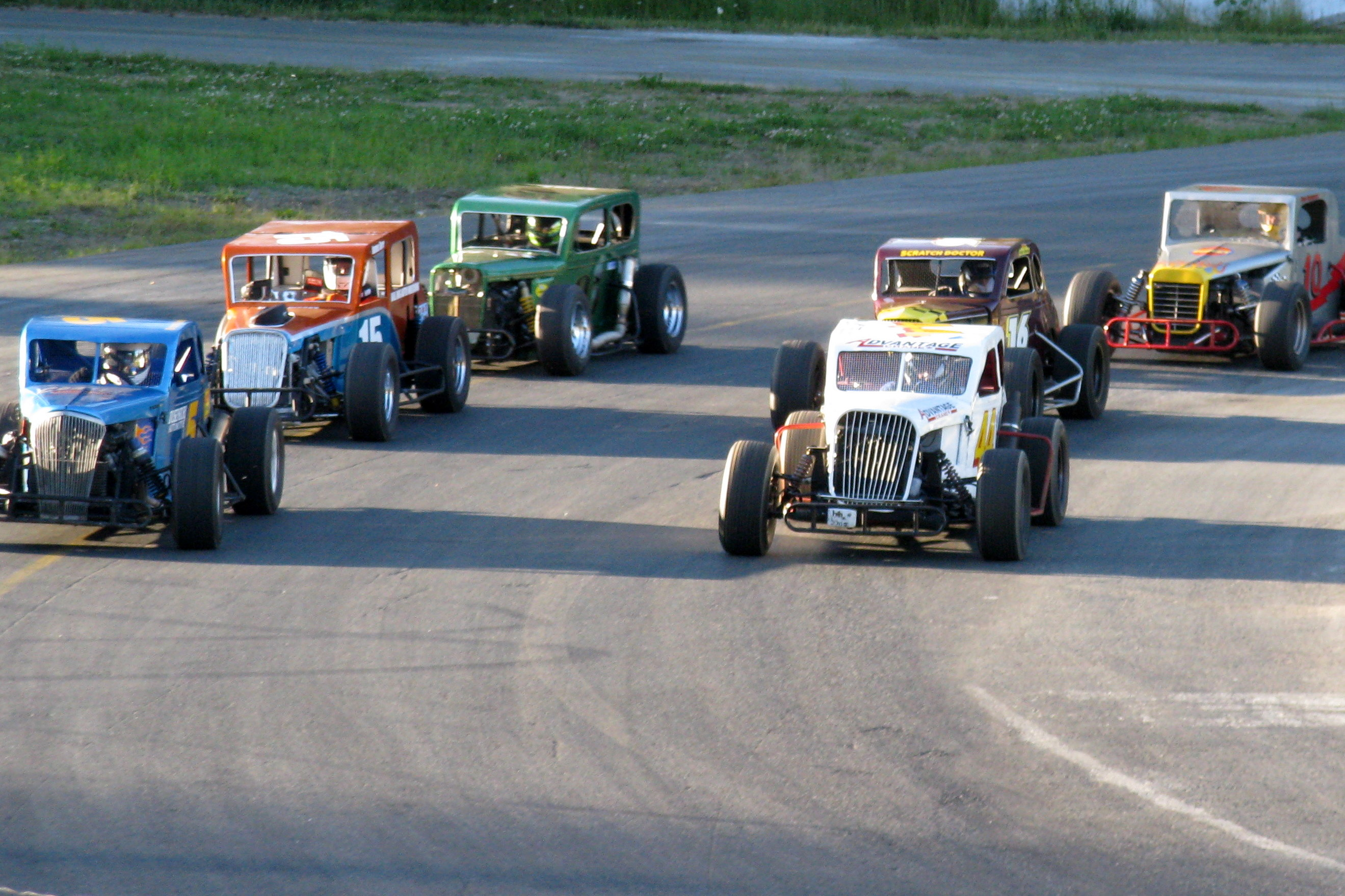 Dwarf cars, a type of modified racecar, racing at Saratoga Raceway.